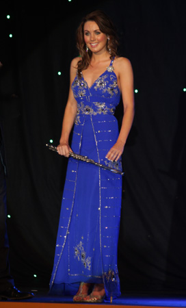 Miss Ireland 08 Sinead Noonan during Miss World 08